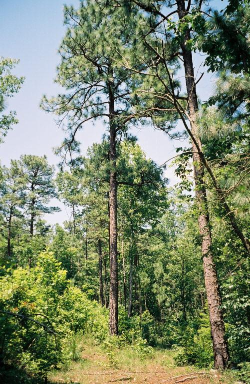 Mountain Longleaf National Wildlife Refuge (Alabama)